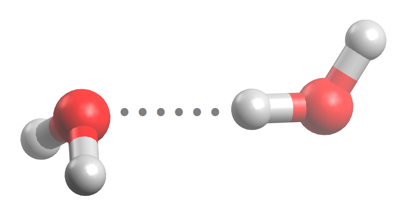 Water dimer 3D ball-and-stick